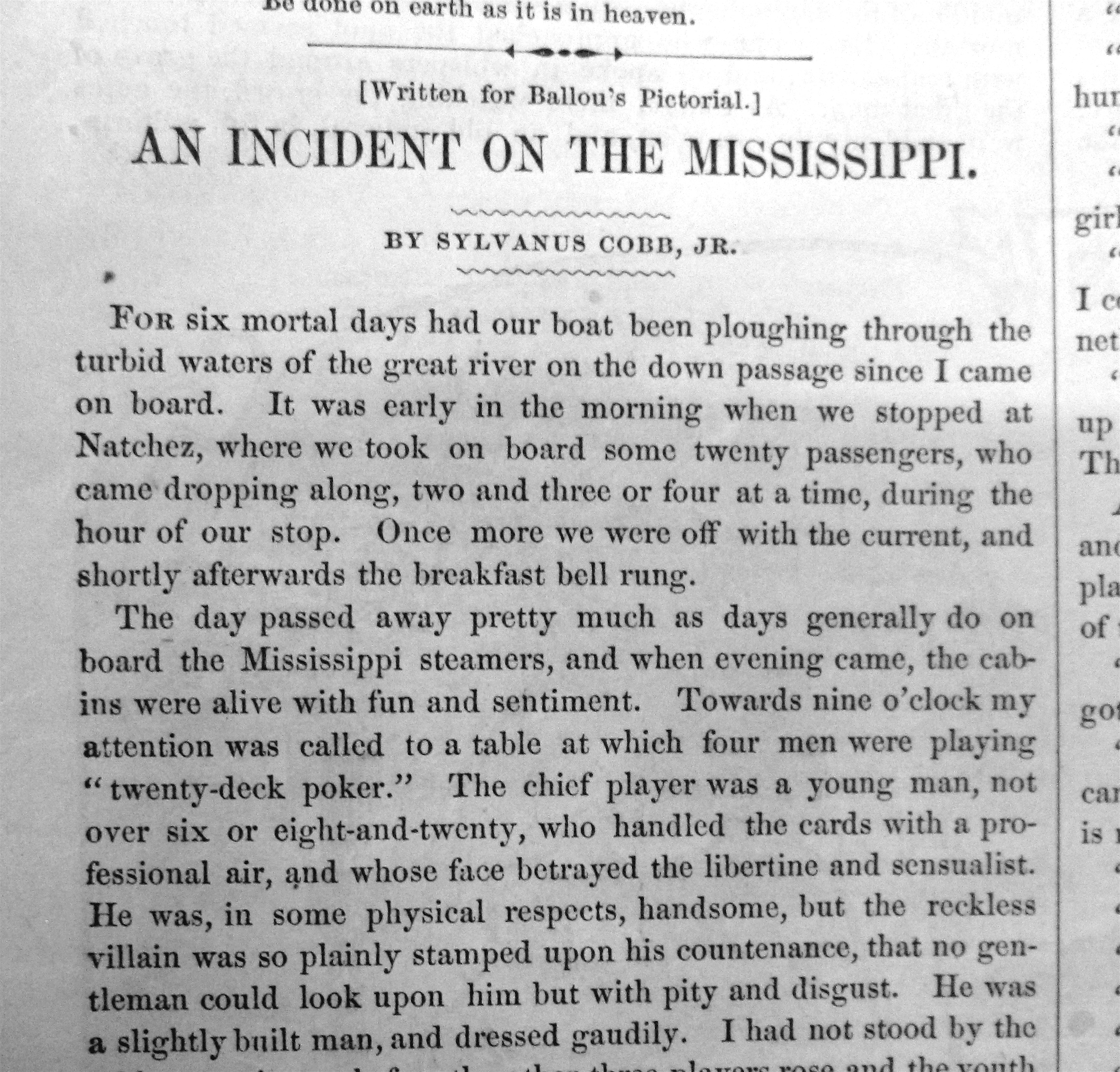 Excerpt from An Incident on the Mississippi by Sylvanus Cobb, in: Ballou's Pictorial, ca.1855-1857